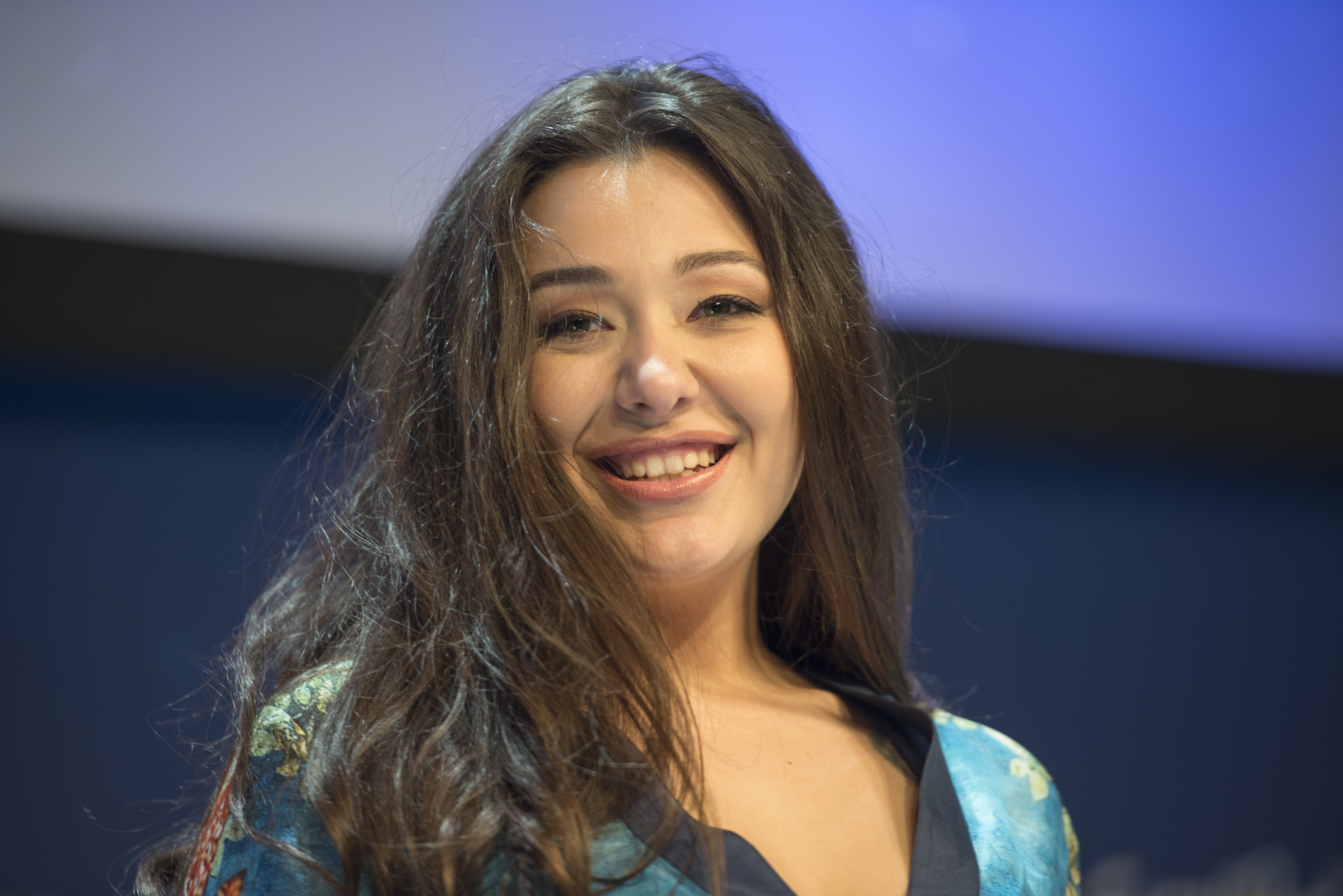 Sanja Vučić ZAA at a Meet & Greet during the Eurovision Song Contest 2016 in Stockholm. (Help translate this text)